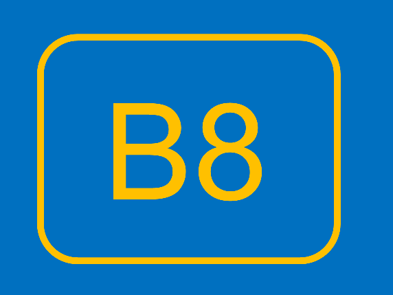 B8 main road logo